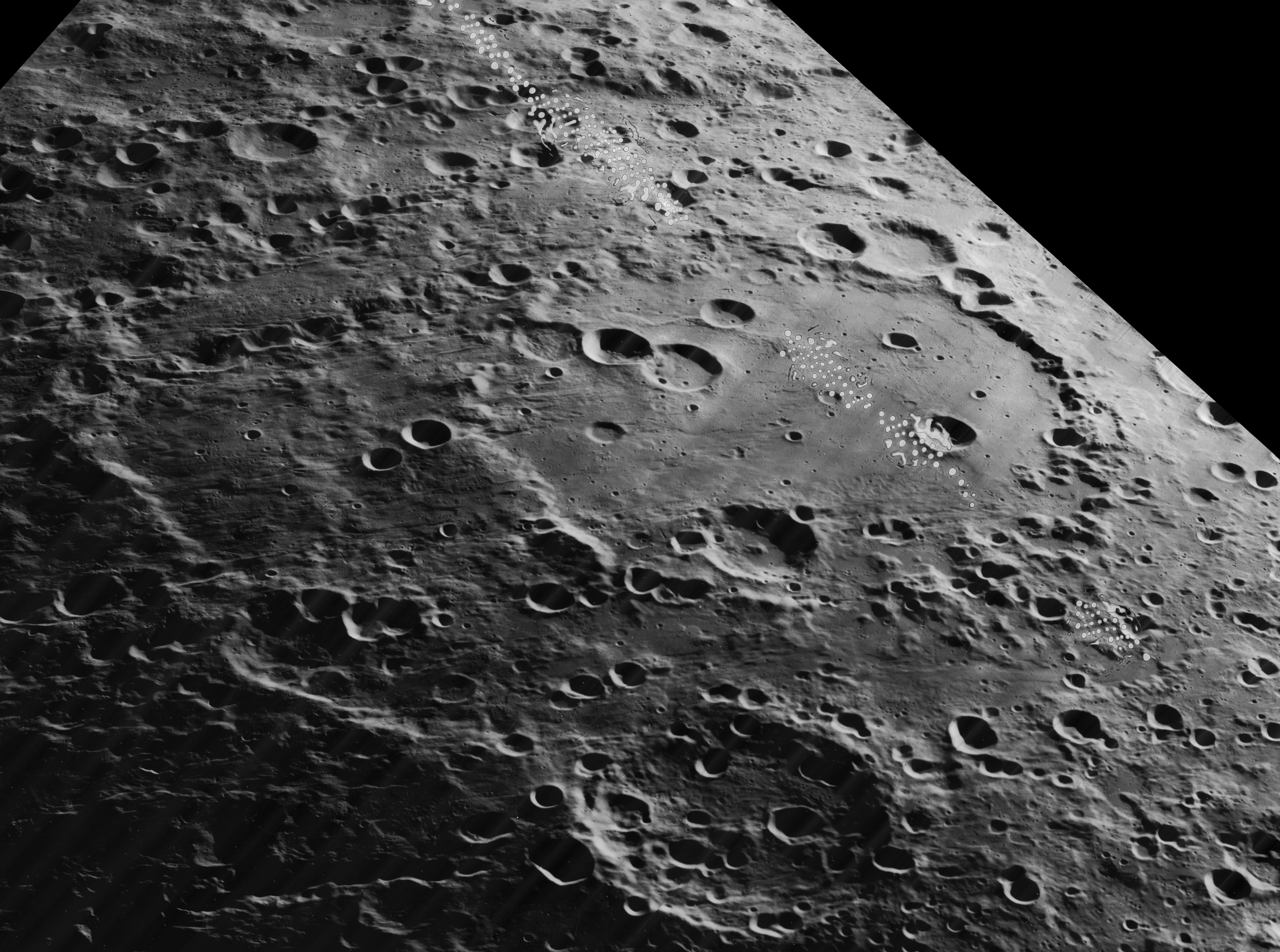 Oblique view of Hertzsprung crater, on the far side of the moon. Band of dots is blemish on original.